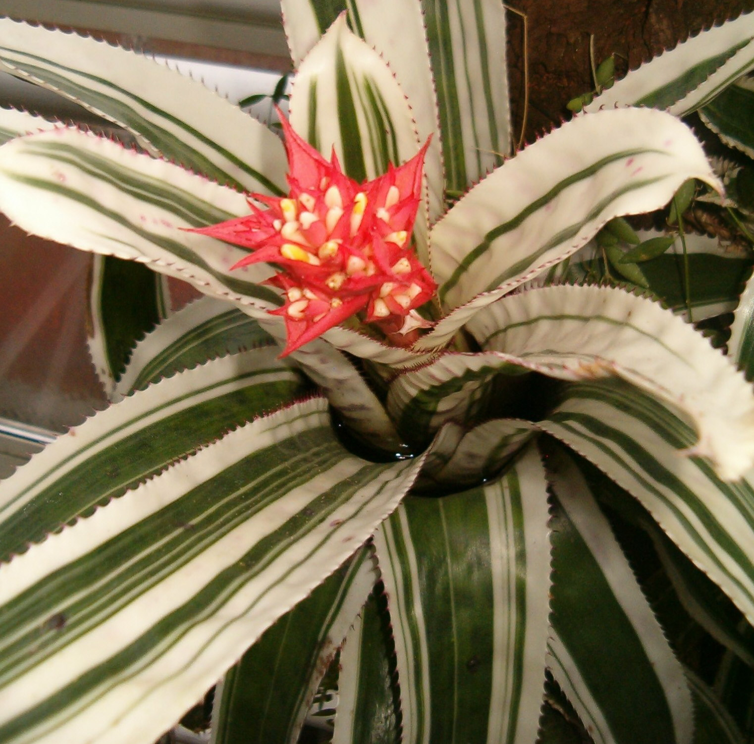 Location: Botanical Gardens Berlin Dahlem Habitus and Inflorescence